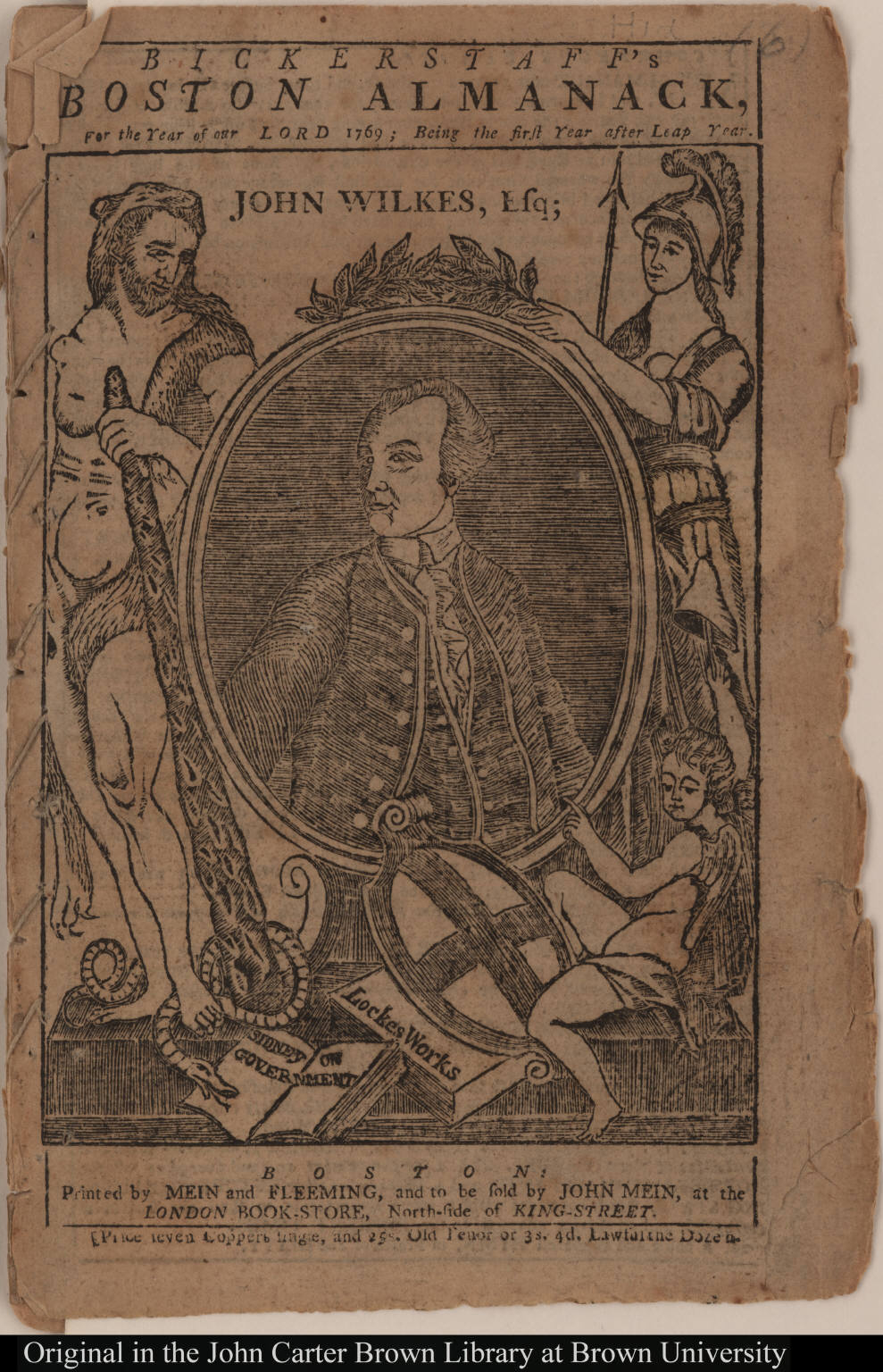 Source Title: Bickerstaff's Boston Almanack, For the year of our Lord 1769 ... Source place of publication: Boston. Source publisher: Printed by Mein and Fleeming, and to be sold by John Mein at the London Book-Store, North-side of King-Street. Source date: [1768].